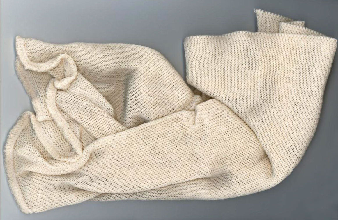 bag to press scraped potatoes during preparing dumplings